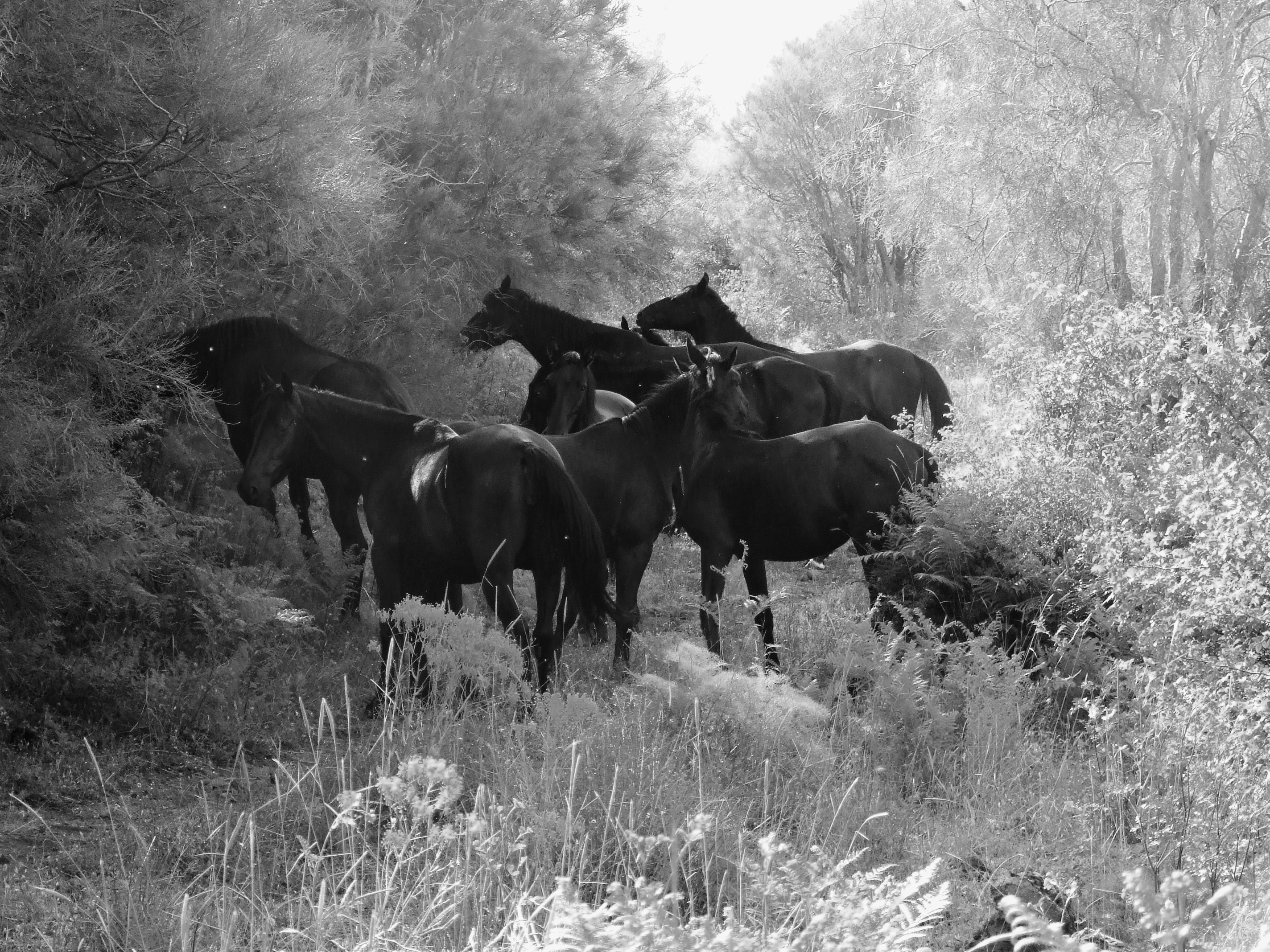 Sanfratellani horses in Etna park